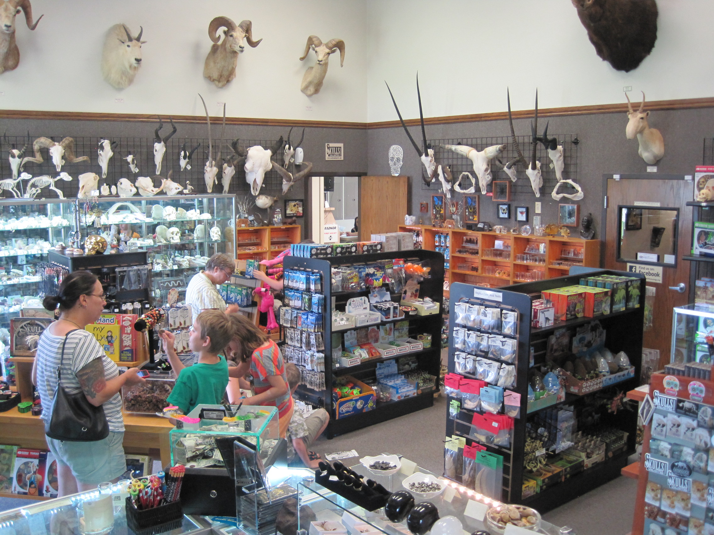 Patrons in Skulls Unlimited's Gift Shop, August 2013.